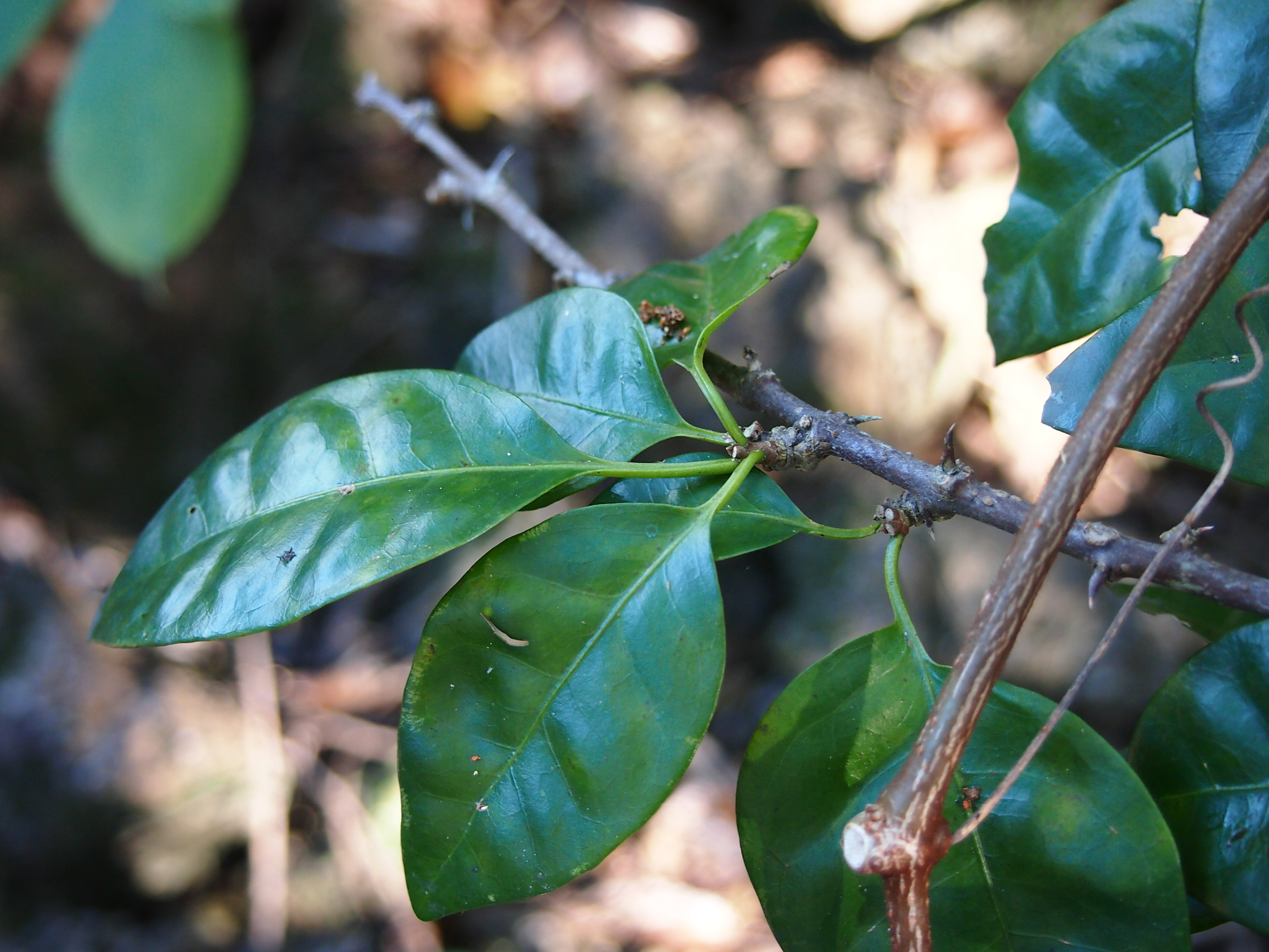 Maclura cochinchinensis foliage